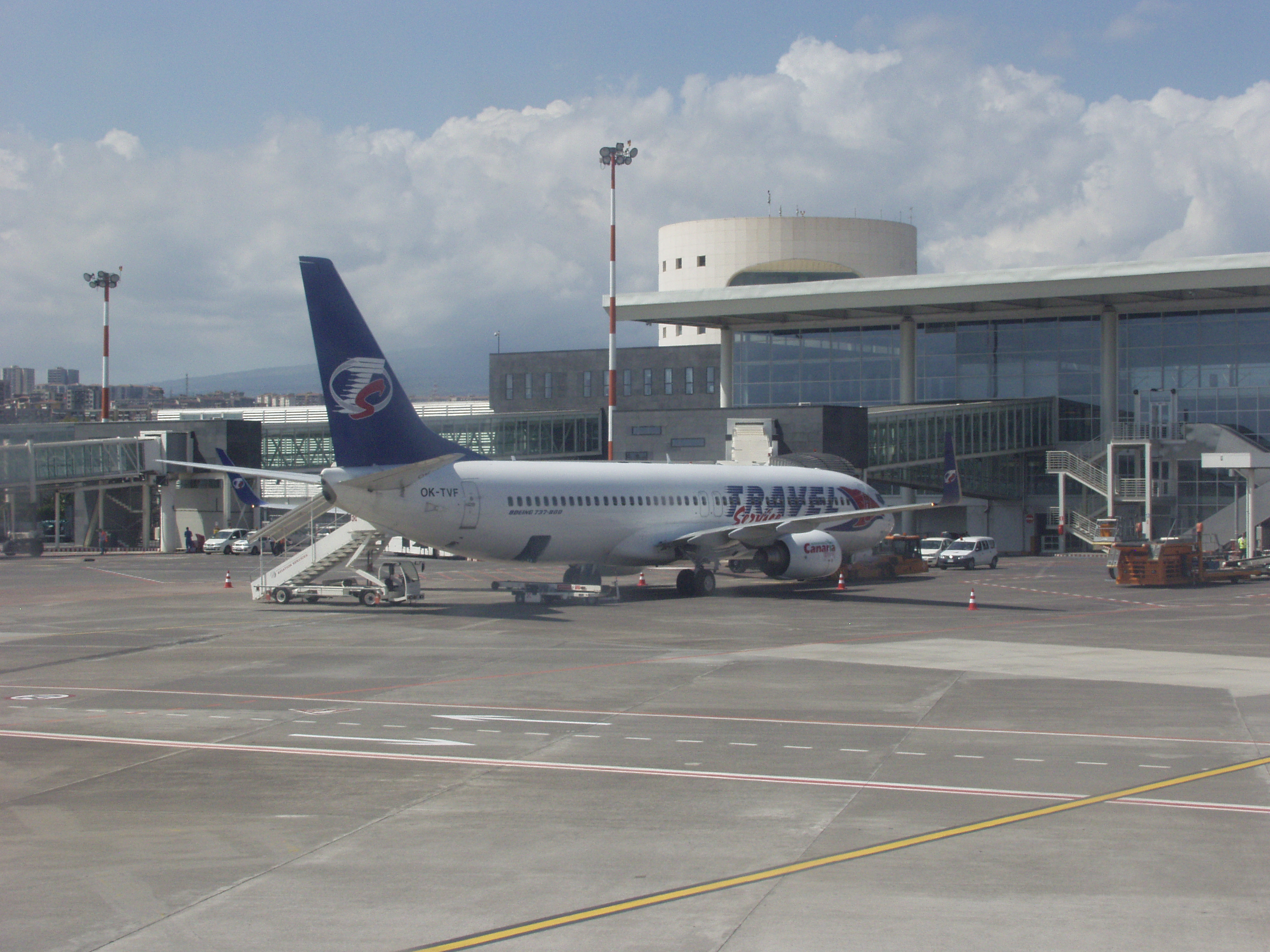 OK-TVF at Fontanarossa airport (Catania)